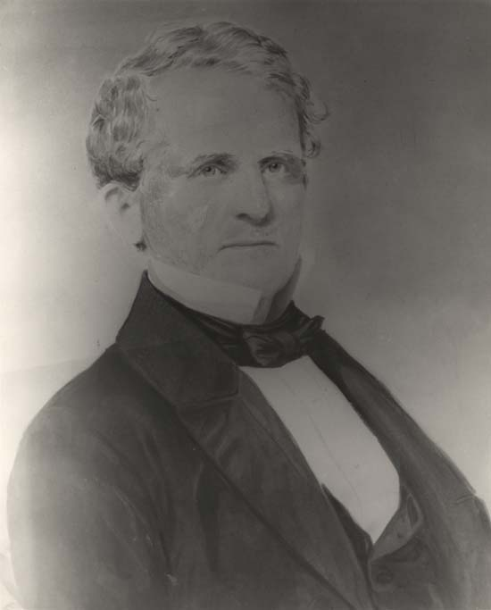 Daguerreotype of Francis Strother Lyon of Demopolis, Alabama.